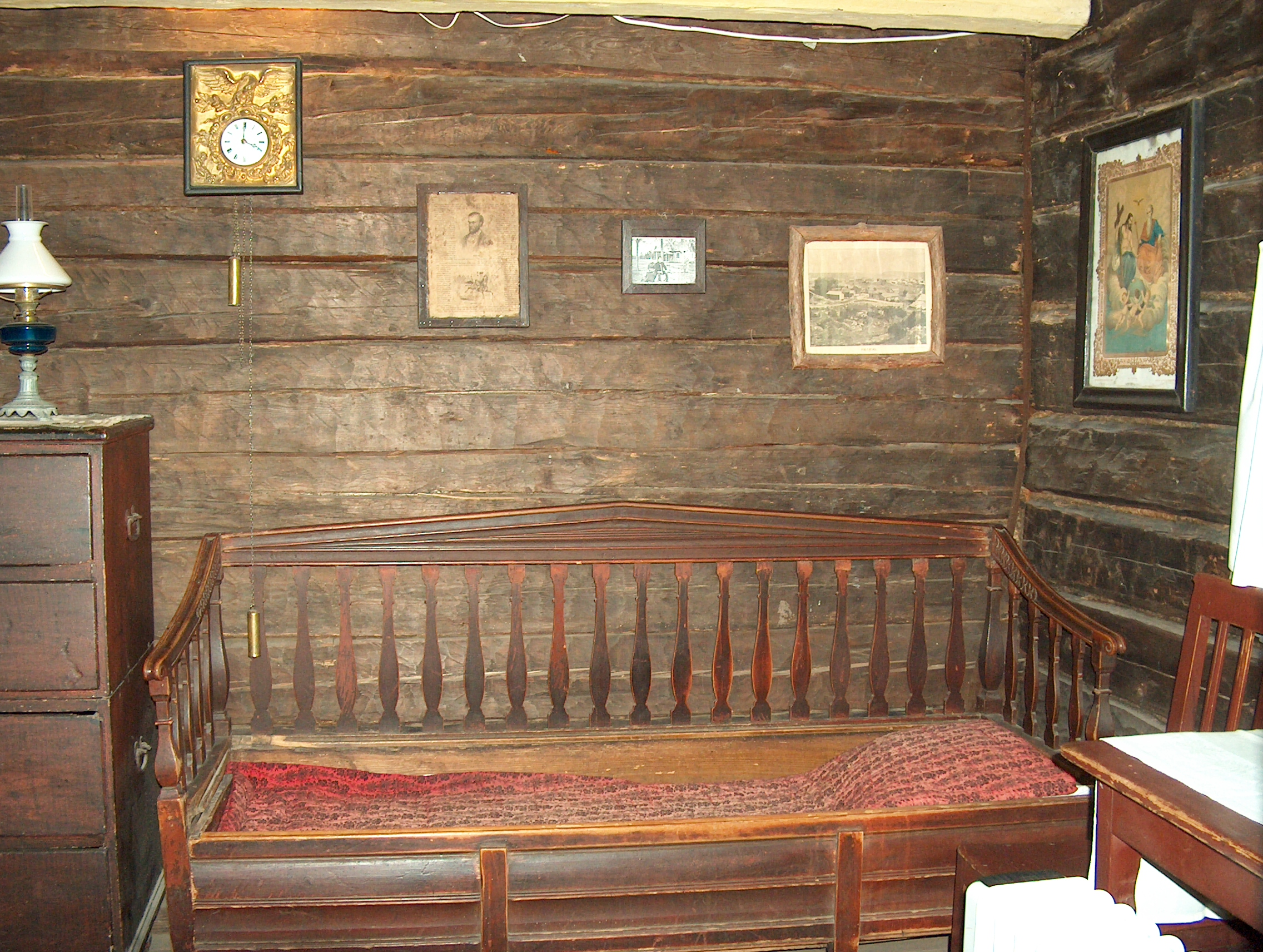 Interior of the cottage in which the Finnish national writer Aleksis Kivi died in 1872